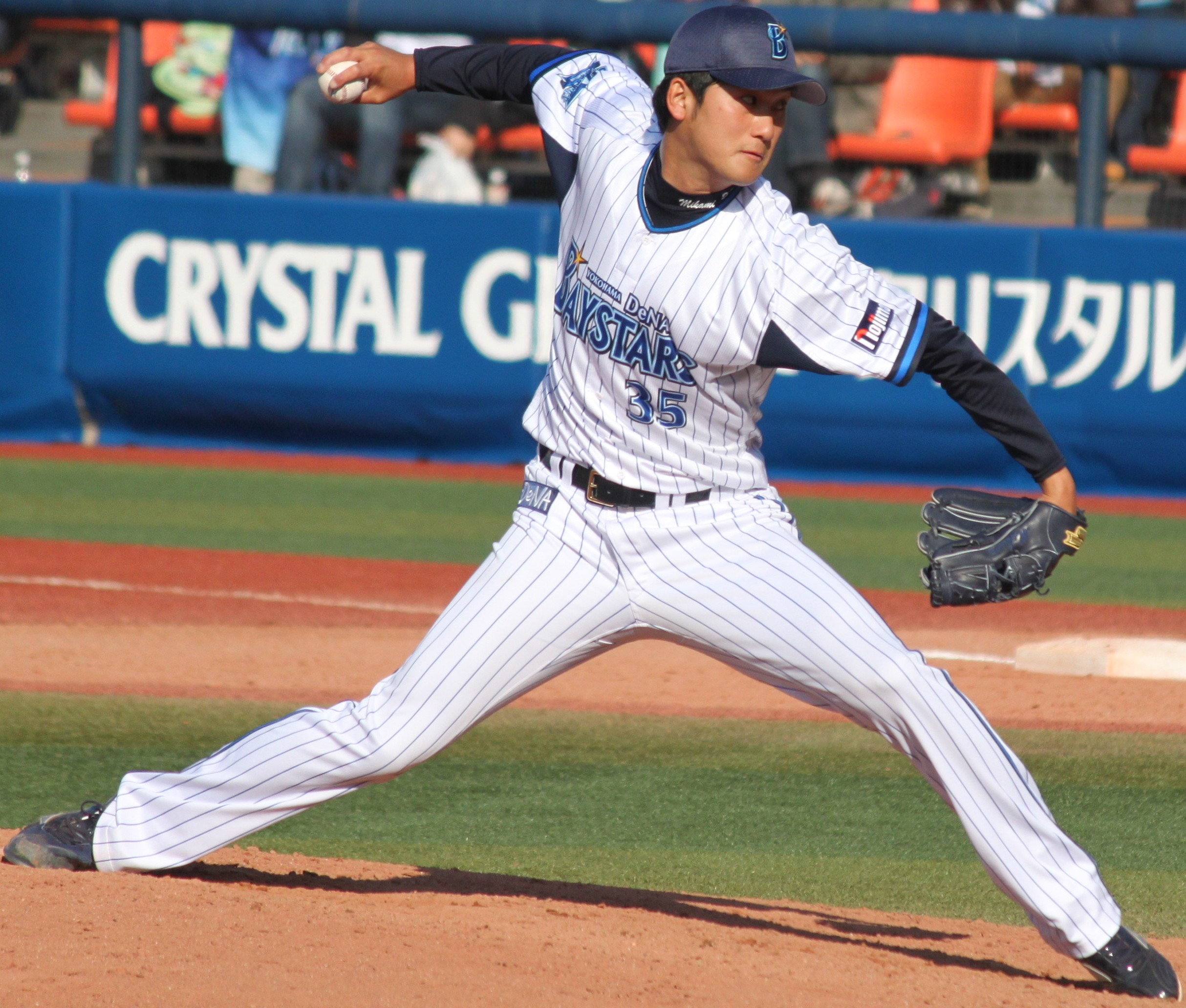 Tomoya Mikami, pitcher of the Yokohama DeNA BayStars, at Yokohama Stadium.